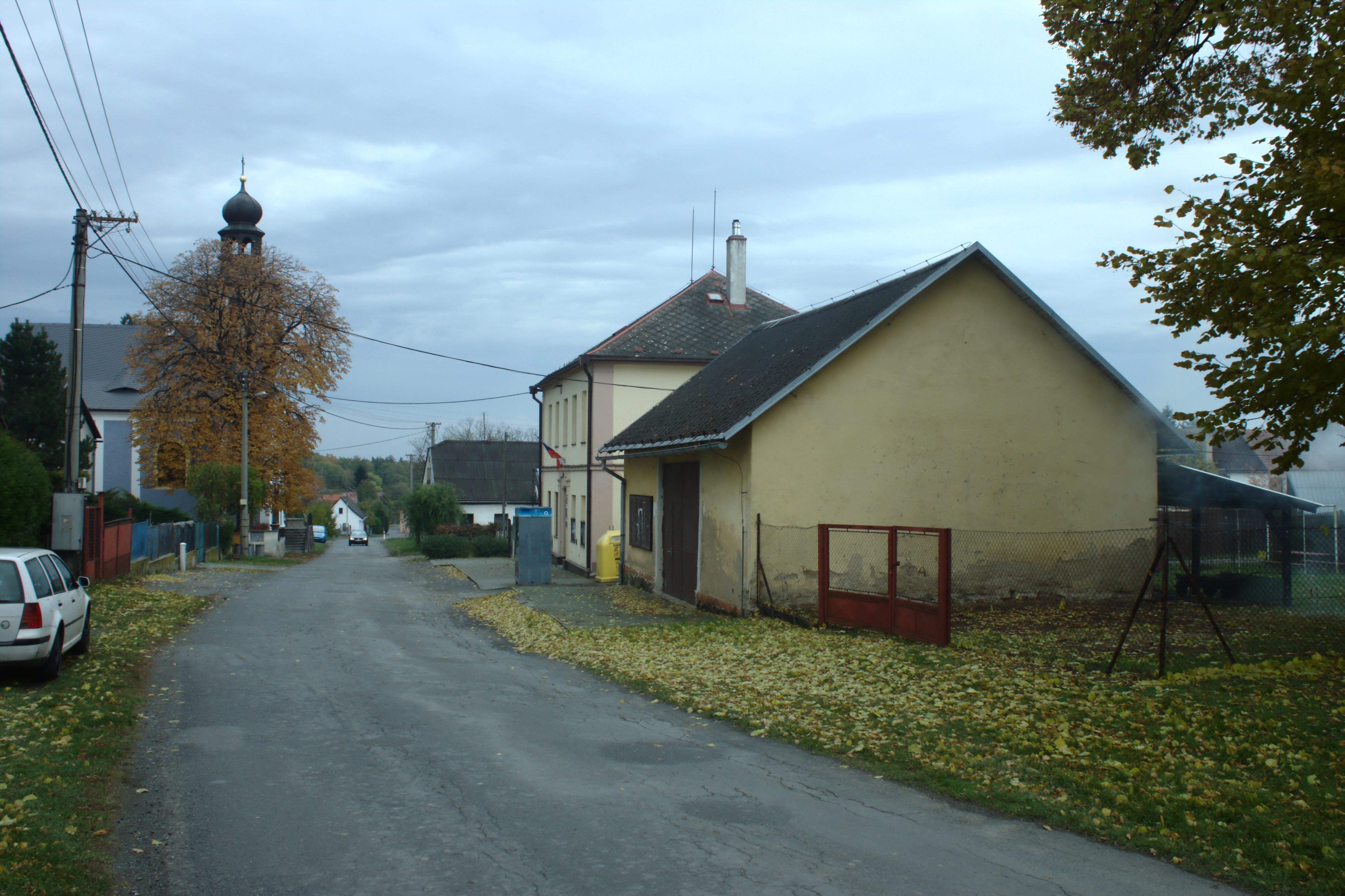 Main road in the village of Býkov, Moravian-Silesian Region, CZ